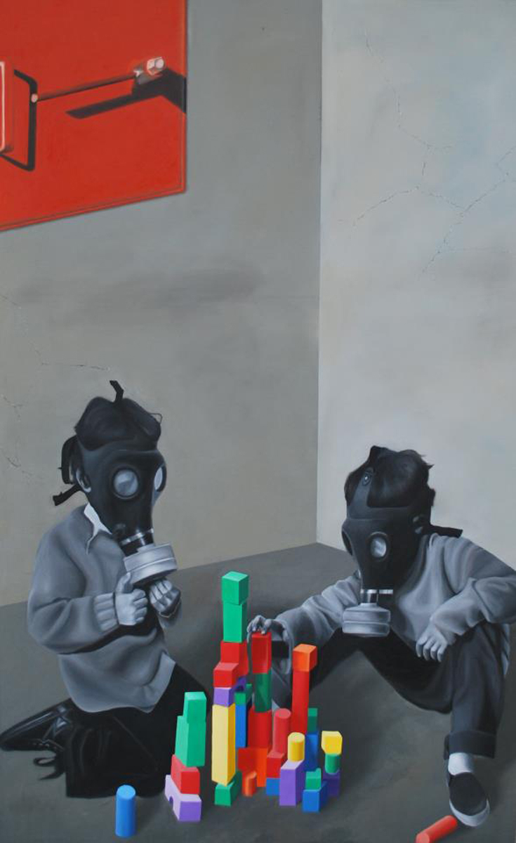 Oil on Canvas, 84" x 53", 2017